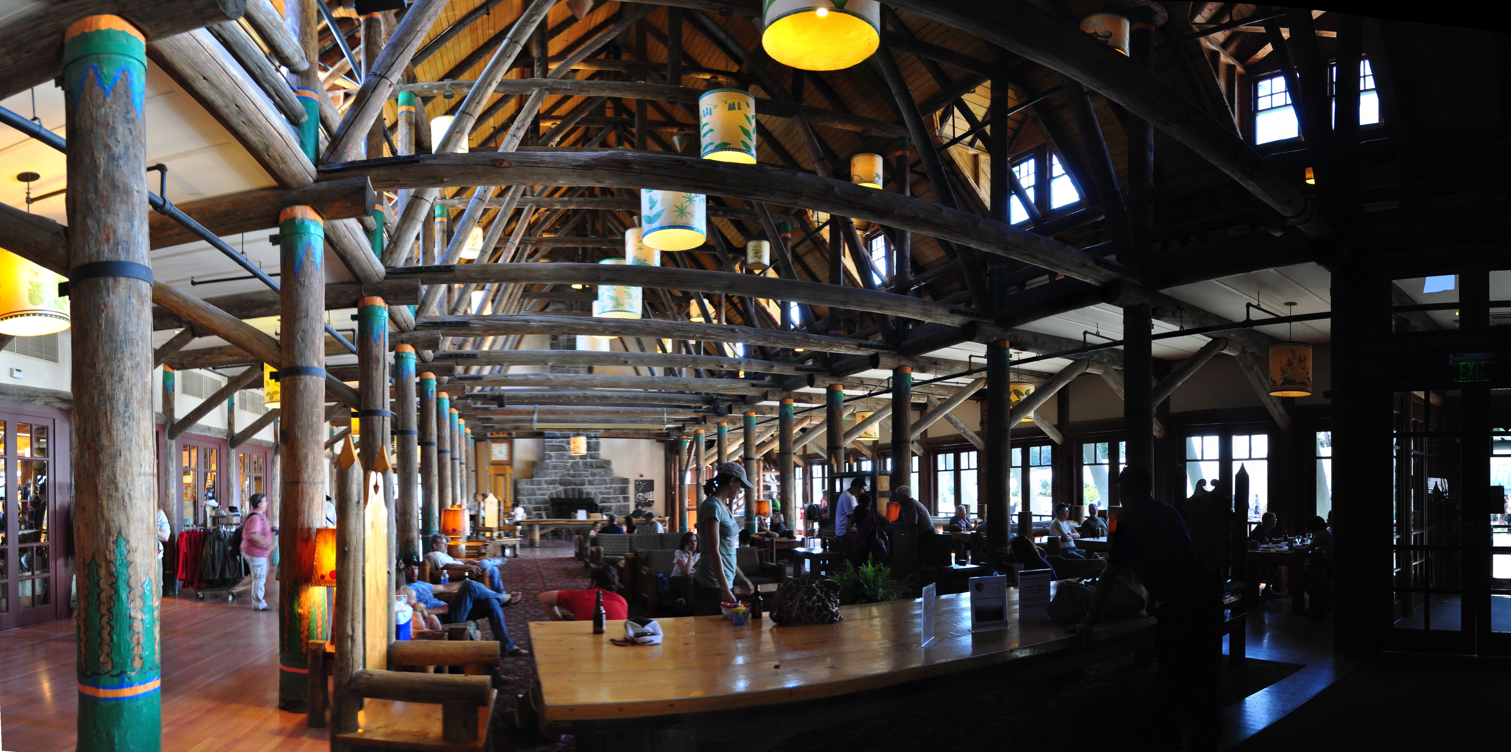 Panoramic view, the Great Room, Paradise Inn, Paradise, Mount Rainier National Park, Washington State, U.S. The Inn is a designated US National Historic Landmark, and is listed on the US National Register of Historic Places (NRHP). It is also part of the NRHP-listed Paradise Historic District. This image was created with Hugin